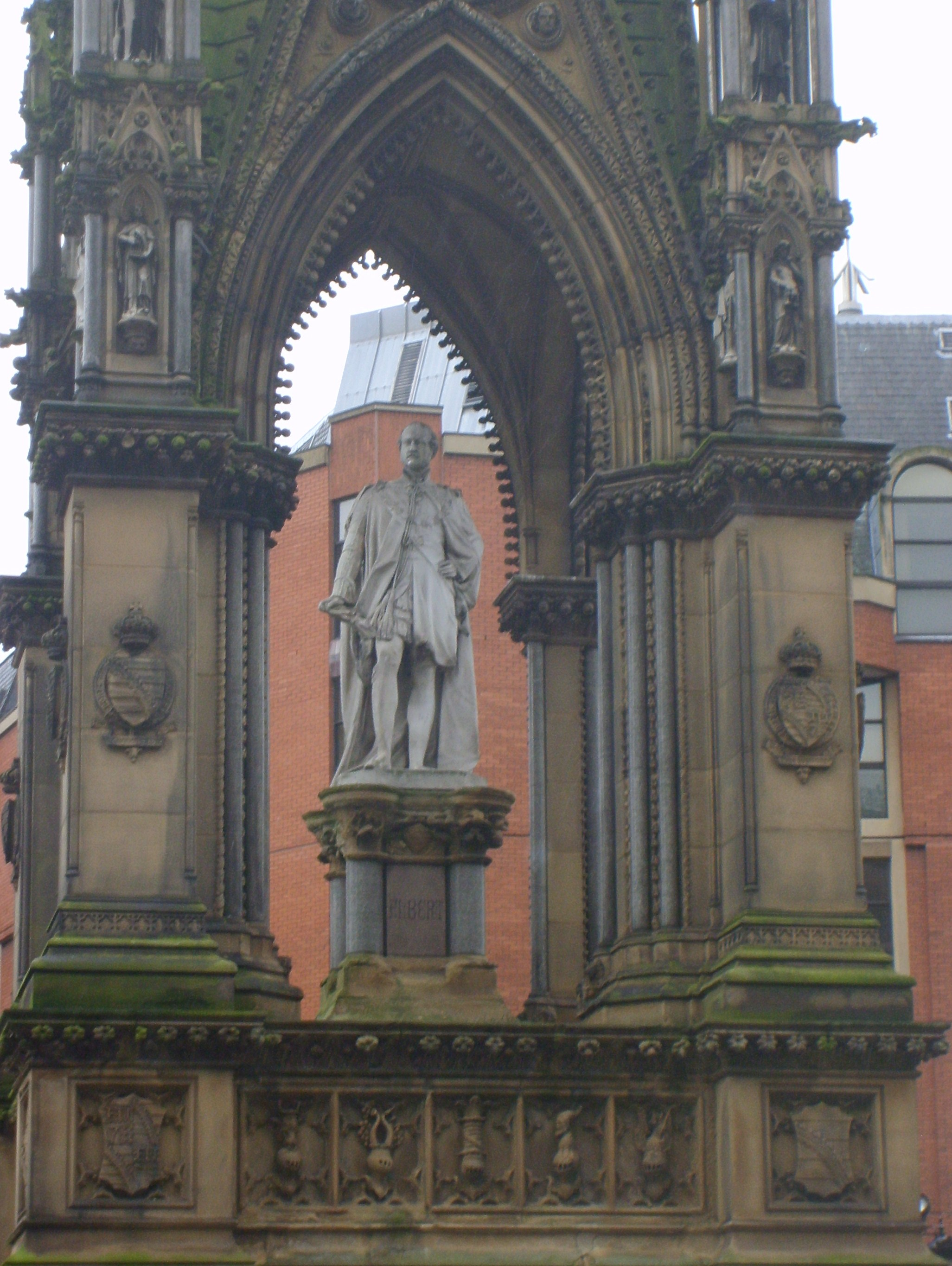 Photo Albert Memorial Manchester